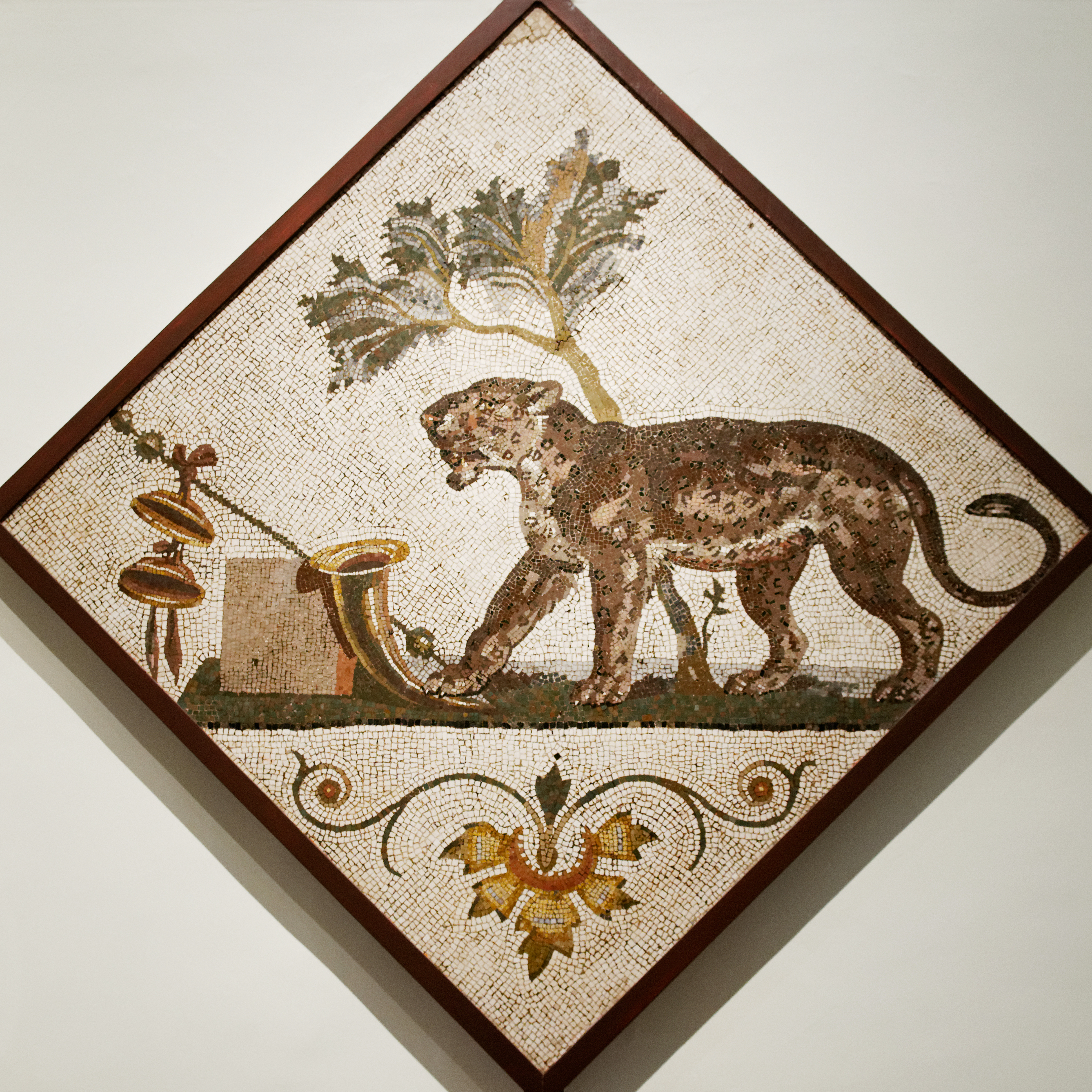 Leopard with Dionysiac symbols, Roman mosaic.